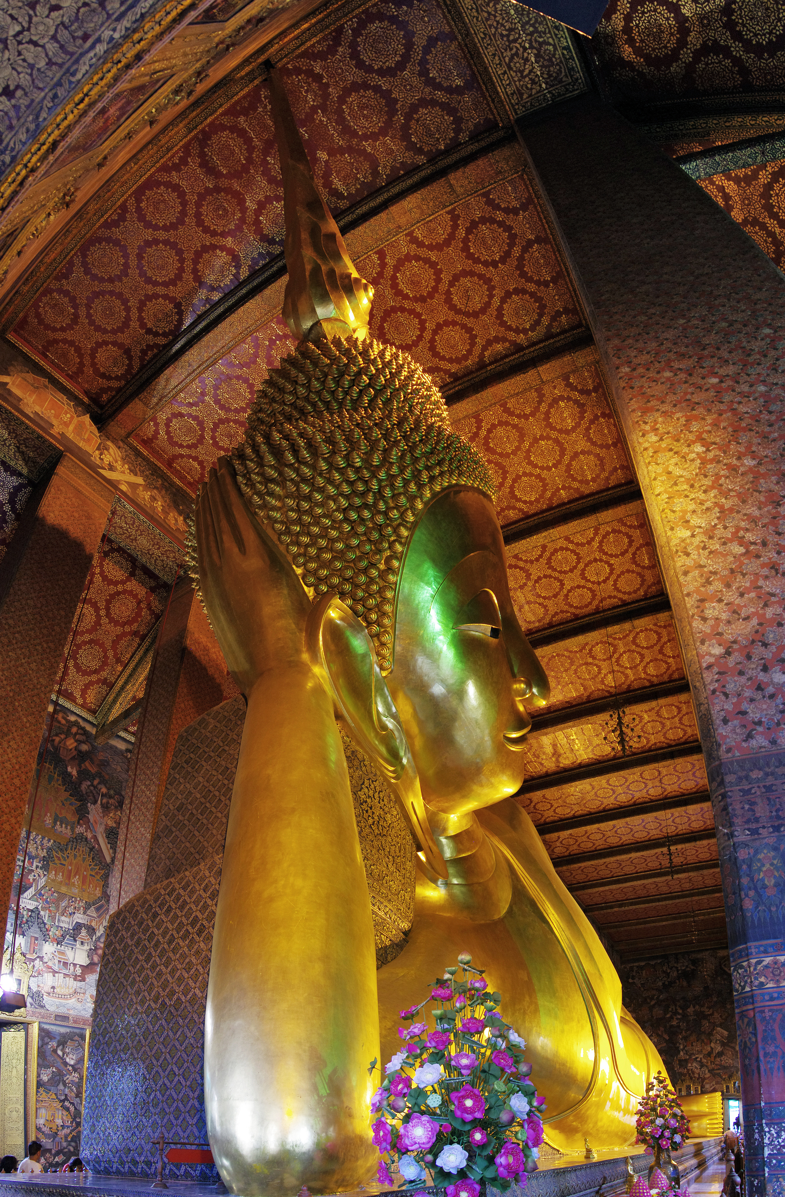 The 46 meter long and 15m high golden statue of a reclining buddha insinde Wat Pho (Bangkok, Thailand).